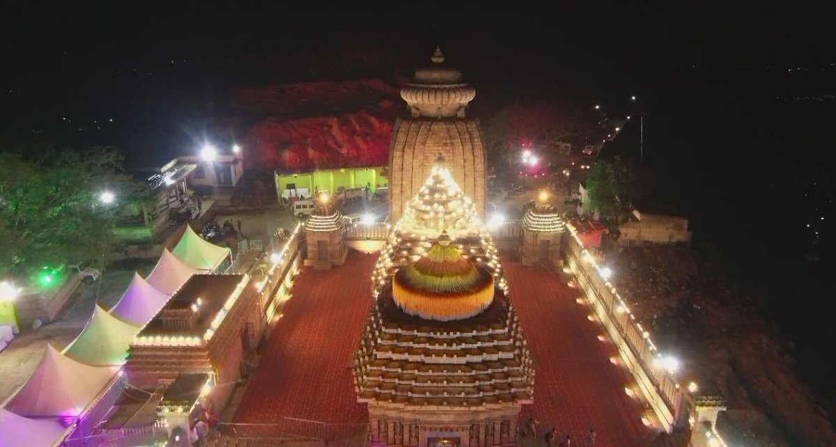 Tweet Text: ପବିତ୍ର ଚୈତ୍ର ପର୍ବ ଉପଲକ୍ଷେ ମା' ତାରାତାରିଣୀଙ୍କ ପୀଠ ସଜେଇ ହୋଇ ବେଶ ମନୋରମ ଲାଗୁଛି। ମା'ଙ୍କ ଆଶୀର୍ବାଦ ଲାଭ କରିବାକୁ ଆସୁଥିବା ଶ୍ରଦ୍ଧାଳୁମାନଙ୍କ ପାଇଁ ଏହା ଏକ ଦିବ୍ୟ ତଥା ଆଧ୍ୟାତ୍ମିକ ପରିବେଶ ଭେଟିଦେବ।